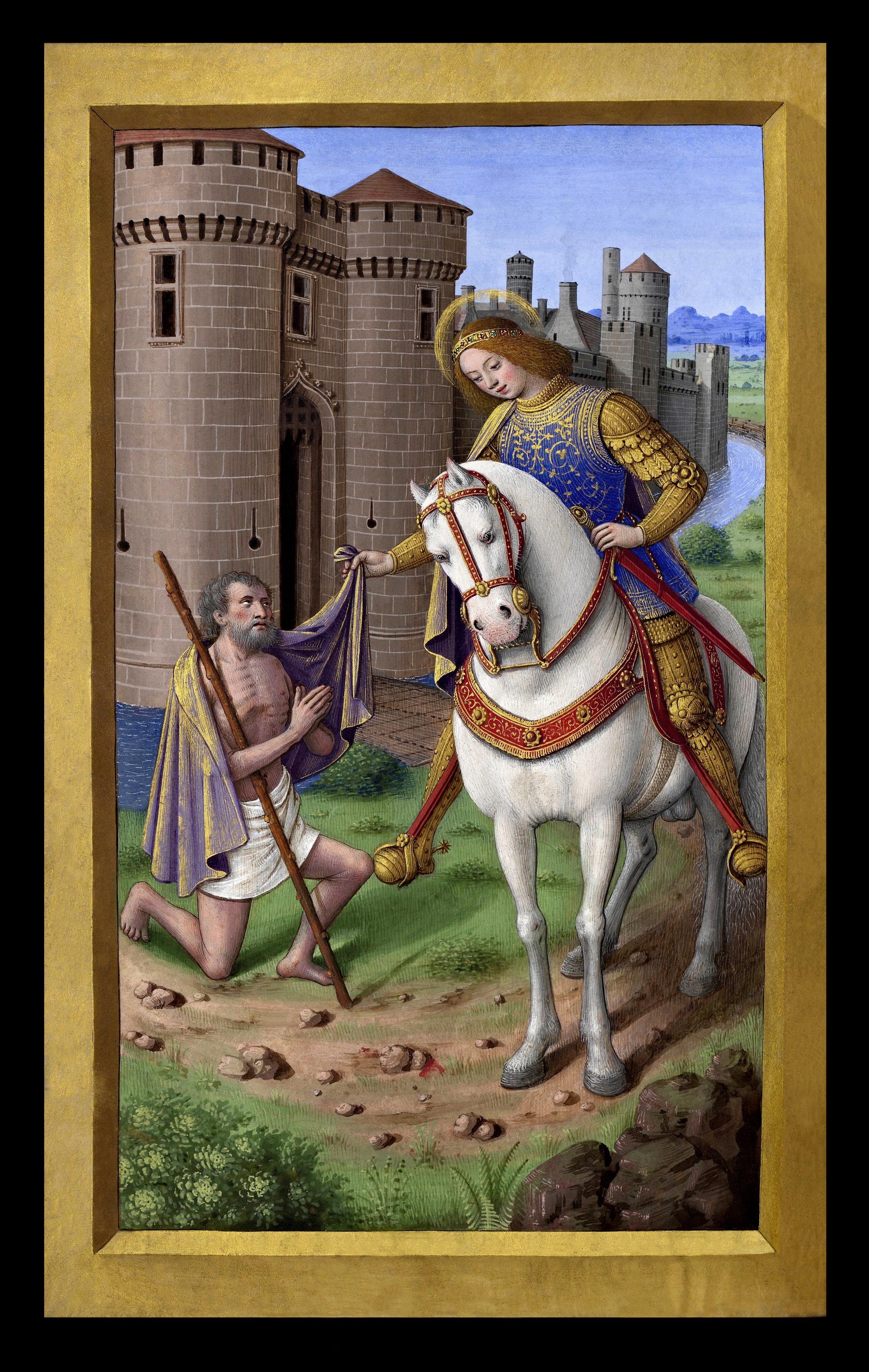 Saint Martin of Tours cutting his cloack in two, miniature from the Grandes Heures of Anne of Brittany, f. 357, (16th century)